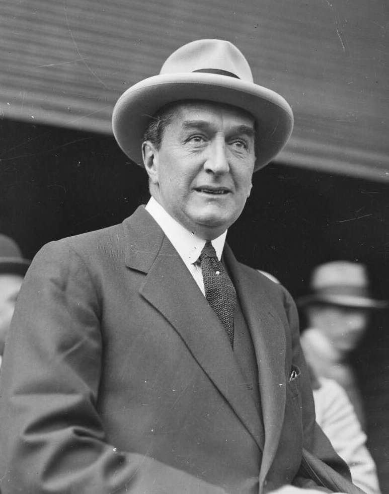 Stanley Bruce, Prime Minister of Australia 1923-29